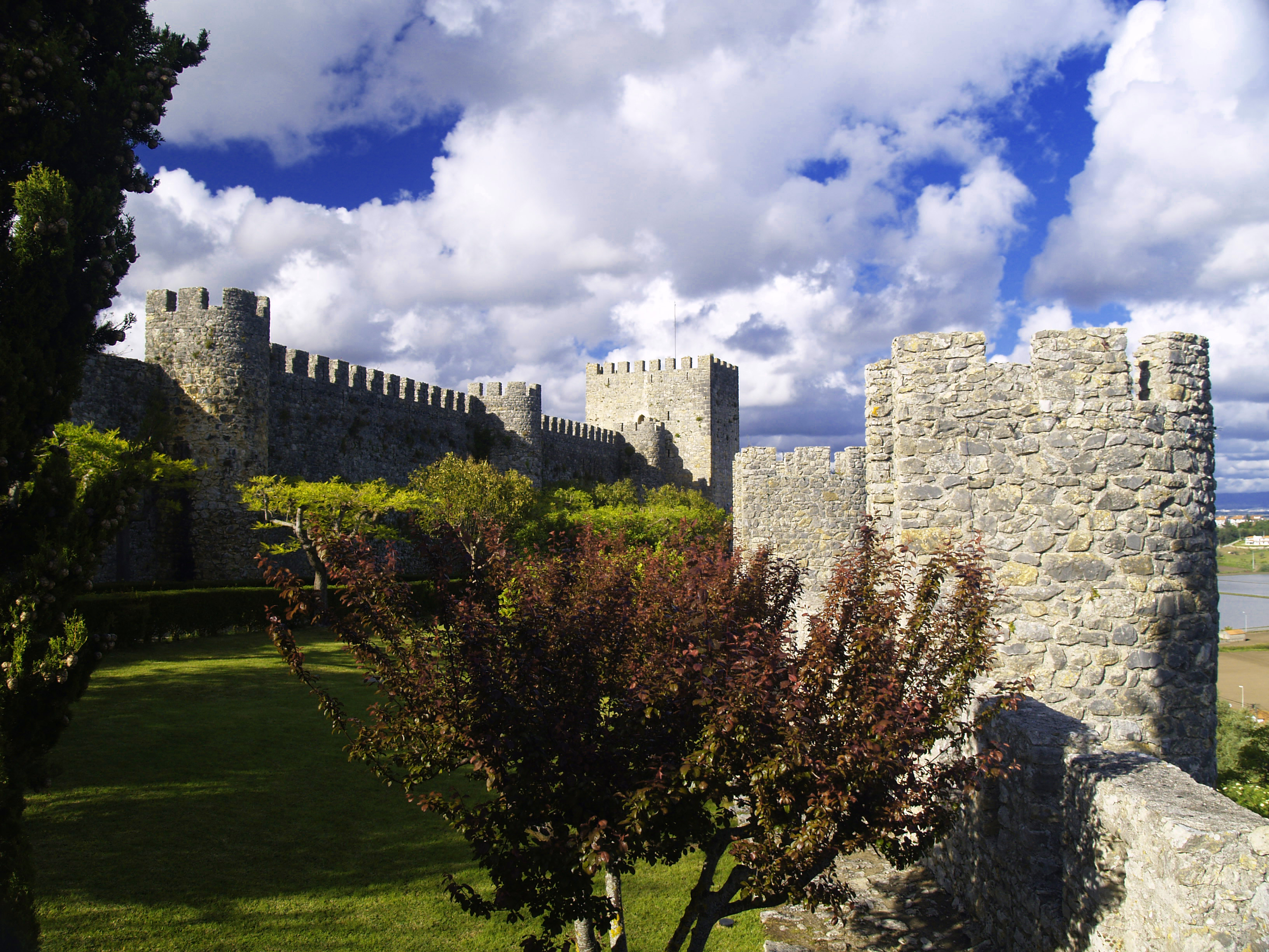 Walls of the Castle of Montemor-o-Velho